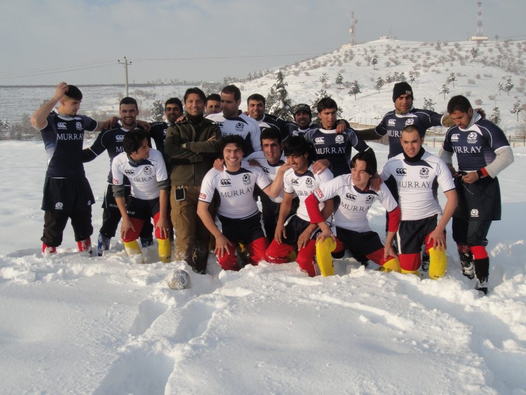 Asad Ziar , With The Snow Rugby Players